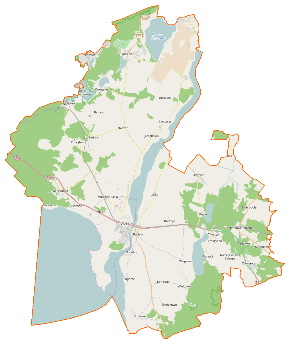 Map of Gmina Wolin, Poland This map of Wolin (gmina) was created from OpenStreetMap project data, collected by the community. This map may be incomplete, and may contain errors. Don't rely solely on it for navigation.